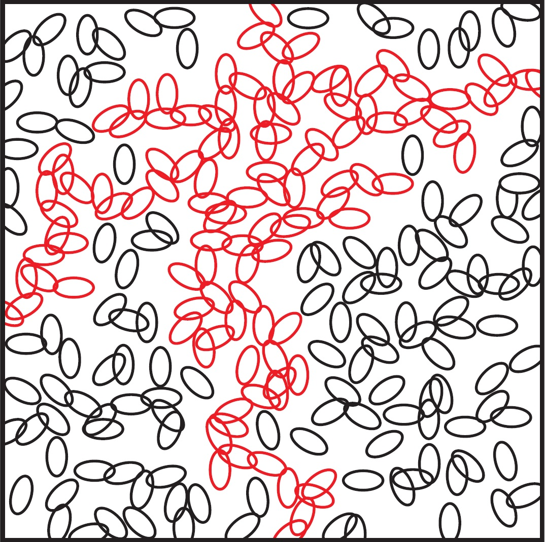 Continuum percolation with ellipses in 2 dimensions. The percolating cluster is shown in red.